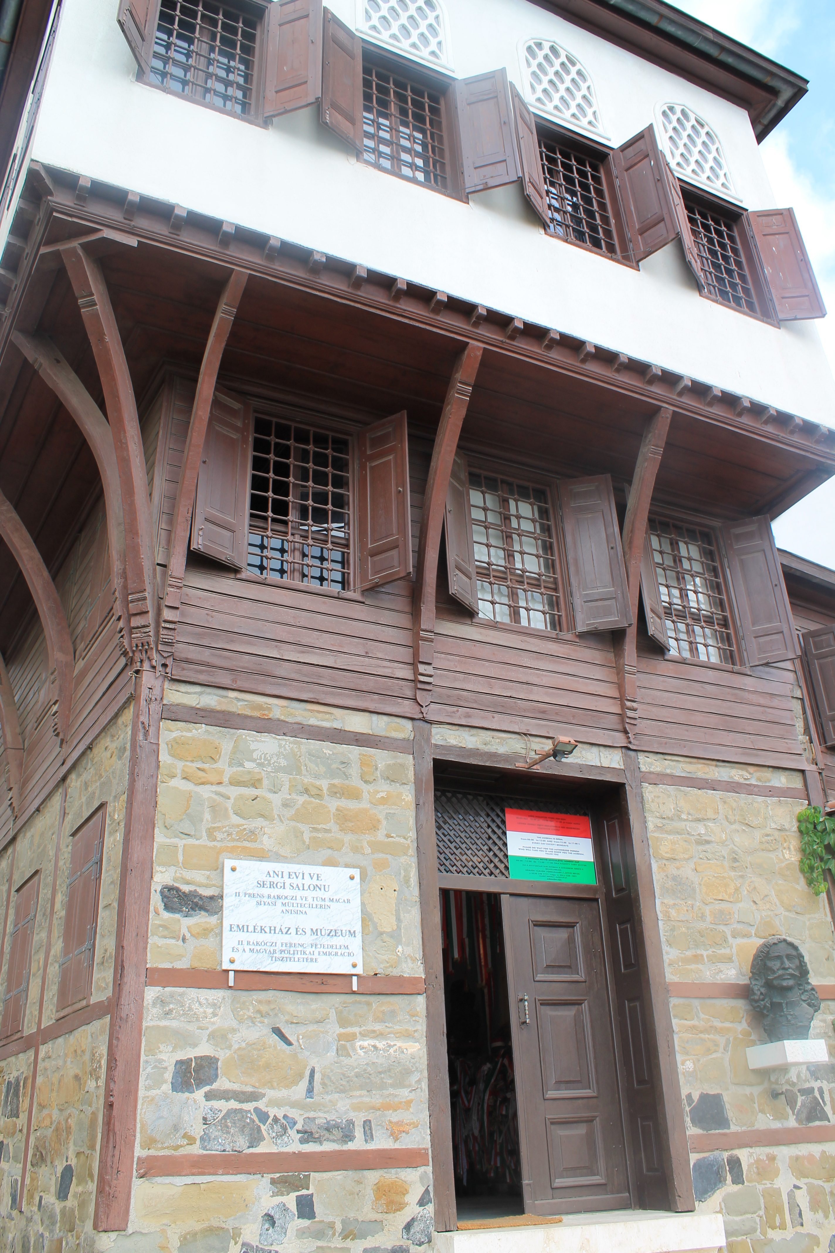 entrence of the museumTürkçe: Giriş ve müzenin ön cephesi